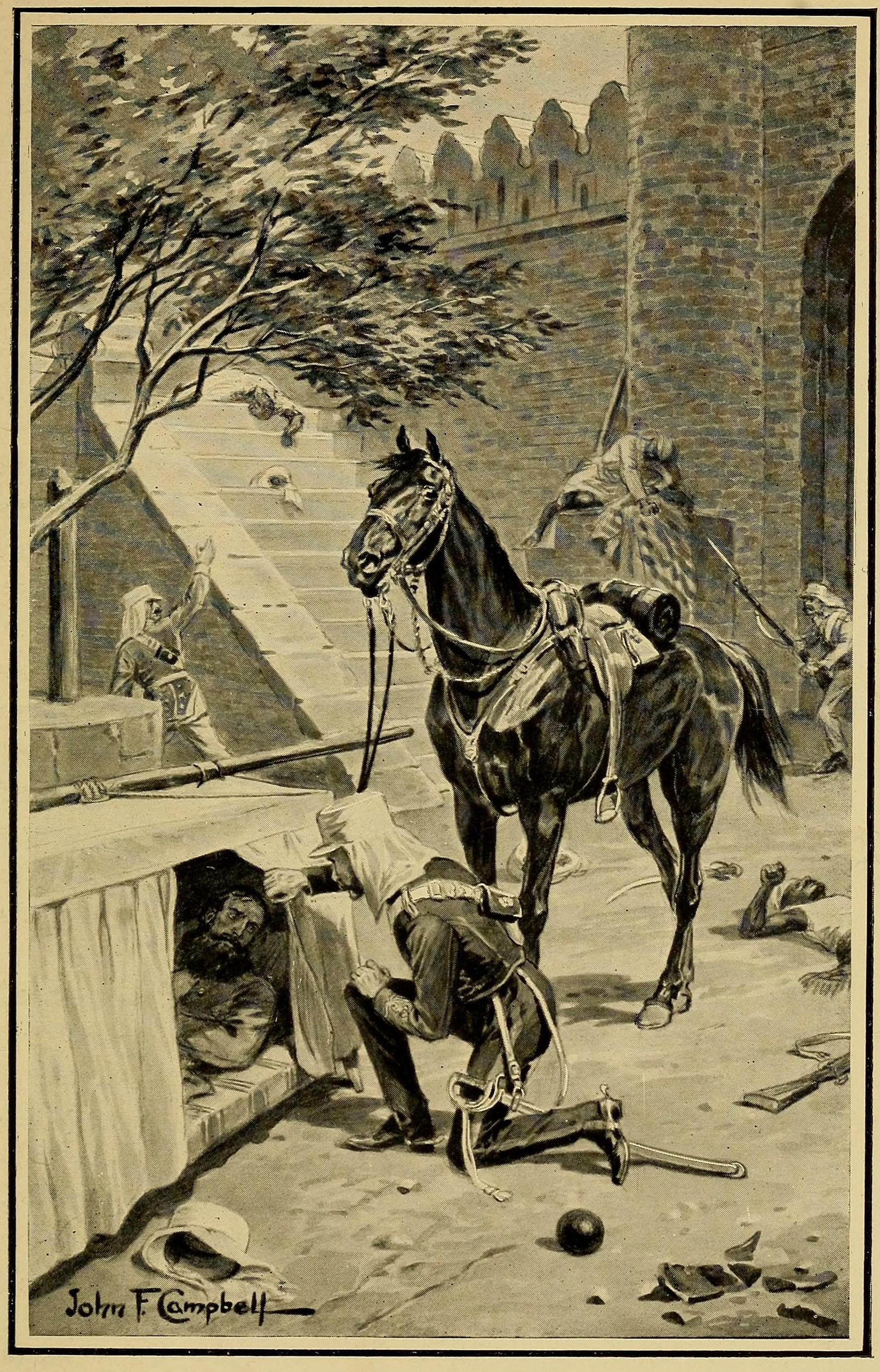 Heroes of the Indian mutiny; stories of heroic deeds by Gilliat, Edward, 1841-1915 Publication date 1914 Publisher Philadelphia, J. B. Lippincott company; London, Seeley, Service & co., ld. Collection library_of_congress; americana Digitizing sponsor The Library of Congress Contributor The Library of Congress Language English Call number 5895008 Camera Canon 5D Identifier heroesofindianmu00gill Identifier-ark ark:/13960/t7jq1p012 Identifier-bib 00009675930 Ocr ABBYY FineReader 8.0 Openlibrary_edition OL24239669M Openlibrary_work OL15222791W Page-progression lr Pages 382 Possible copyright status The Library of Congress is unaware of any copyright restrictions for this item. Ppi 400 Scandate 20100604151749 Scanner Scanningcenter capitolhill Full catalog record MARCXML